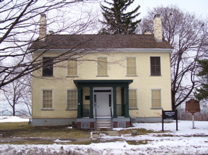 Richard Hoskins photograph of the Hubbard House in Ashtabula, Ohio. Submitted by the photographer.